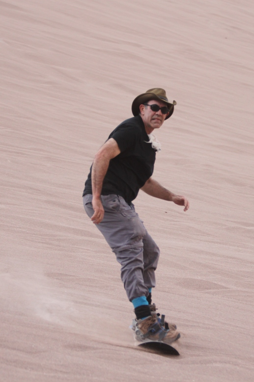 Sandboarding in San Pedro de Atacama, Chile.